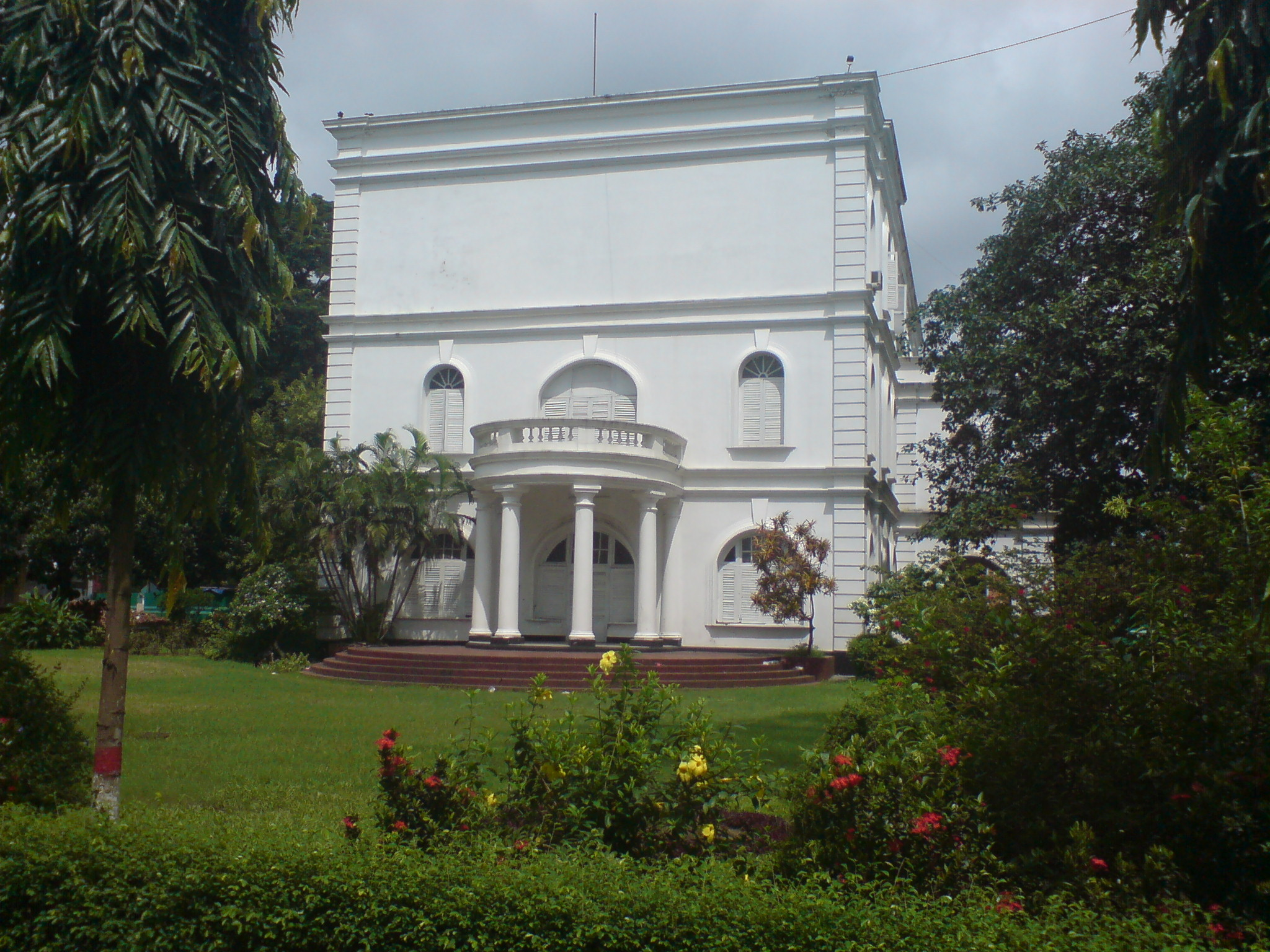 The Bangla Academy building, Dhaka, Bangladesh. Previously, its name was Bardhaman House.